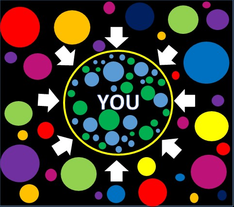 Filter Bubble Graphic